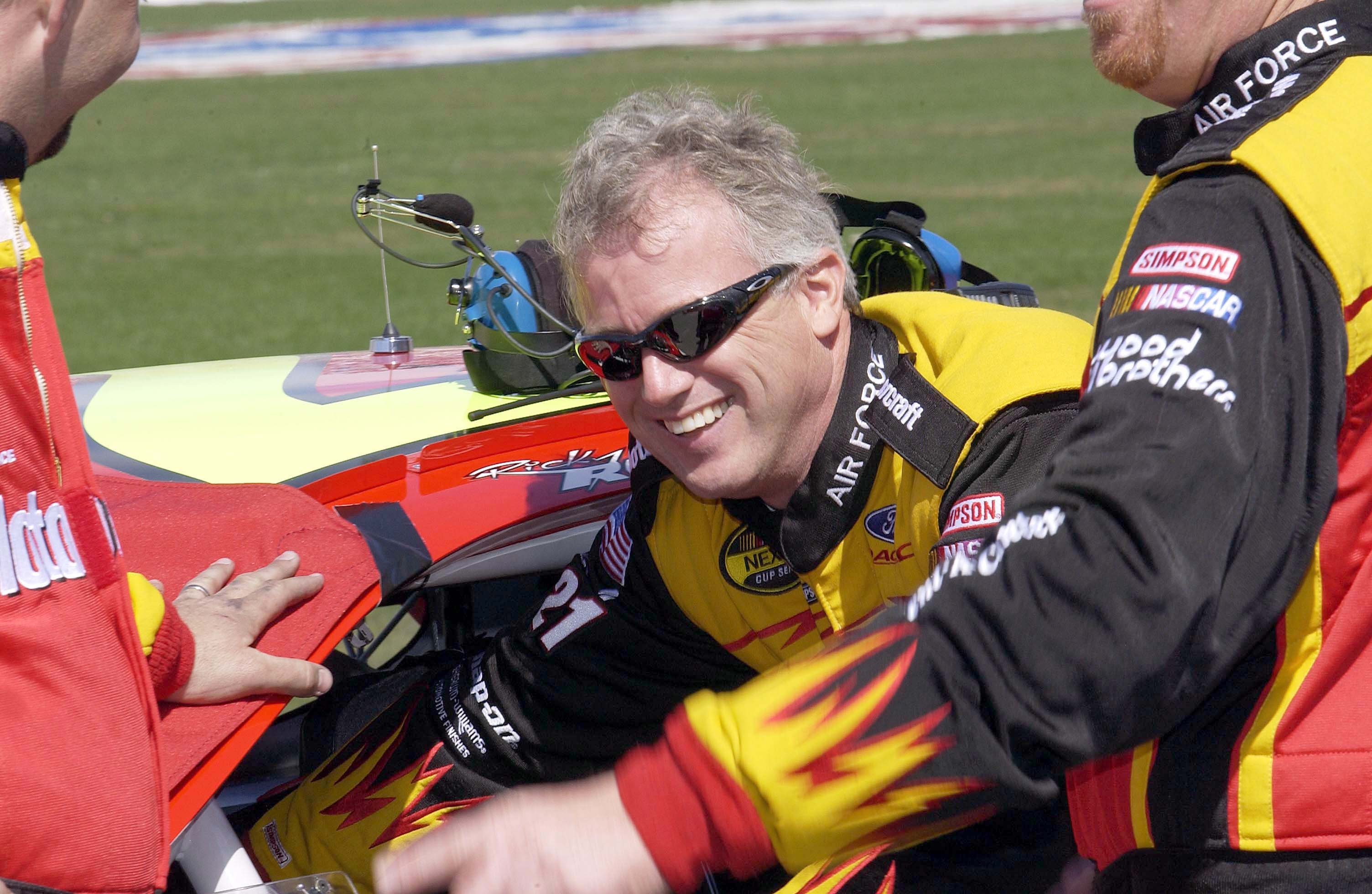 NASCAR driver Ricky Rudd in his 2005 #21 NEXTEL Cup car